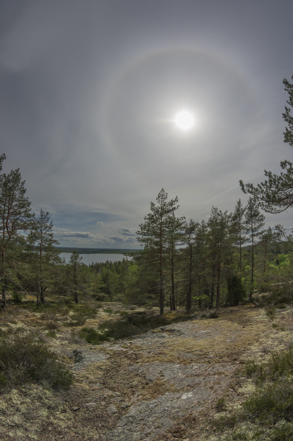 Moss-covered rock, forest and in the distance the deep bay of Bråviken. The halo in the sky is created by millions of tiny ice crystals that refract the light from the sun. .